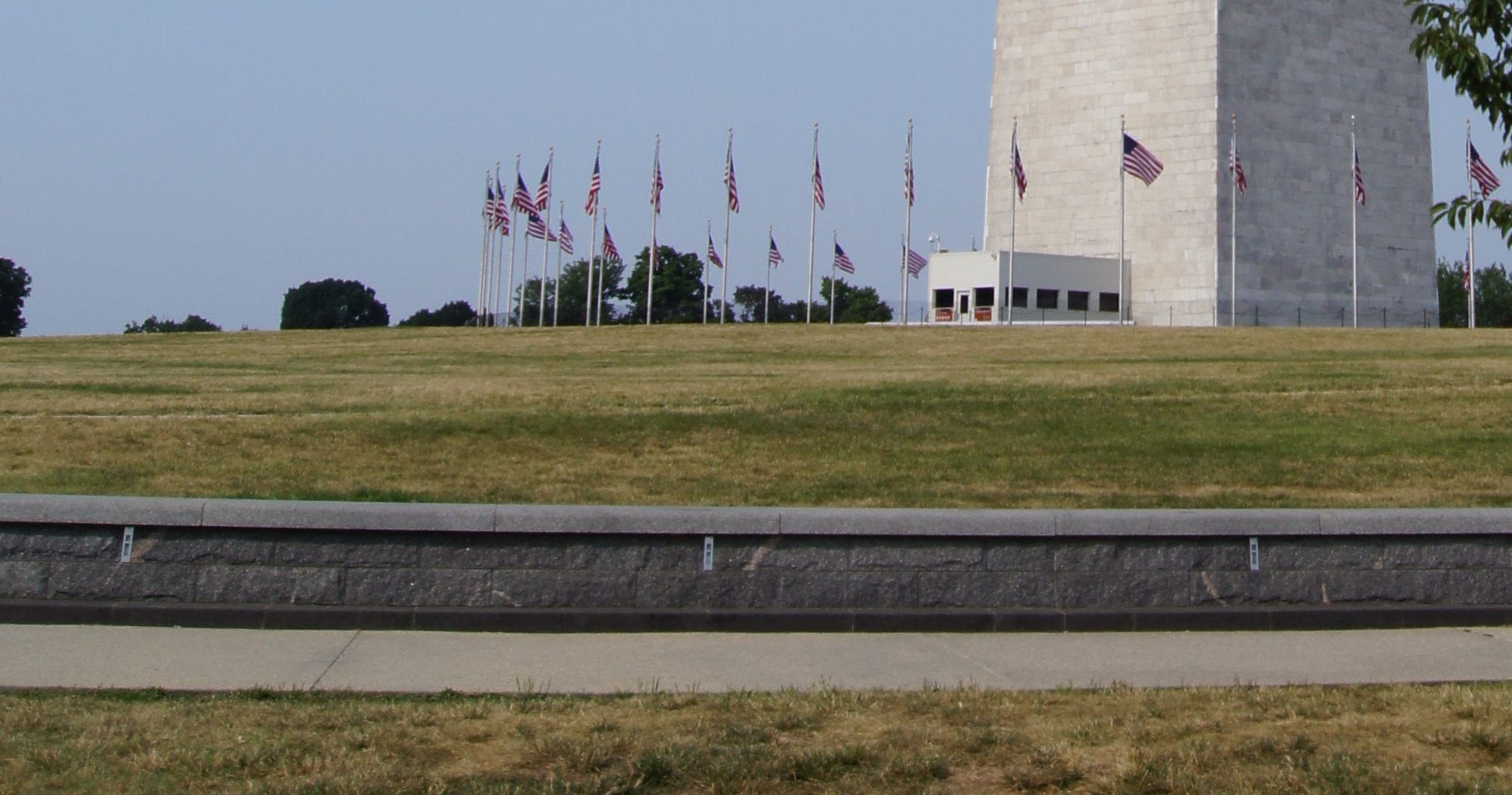 Building in Washington, D. C., United States